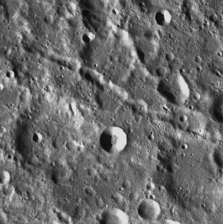 LROC . Sumner is the eroded crater left of center; Catena Sumner crossing the frame diagonally at upper sector